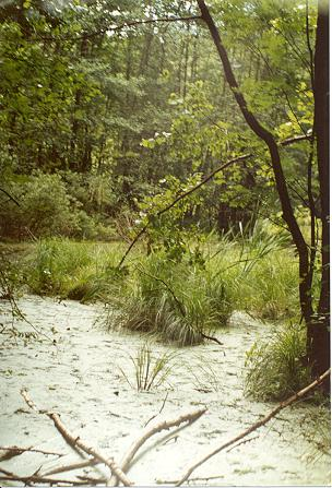 European swamp forest - Morasko, Poznan, late spring 2002